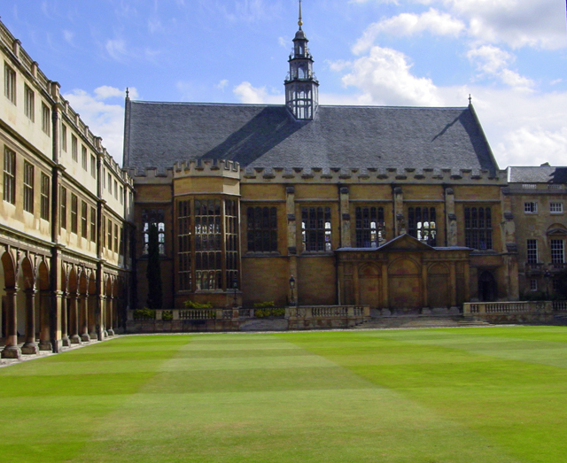 Nevile's Court, Trinity College, Cambridge This view is essentially east, but the north cloister is where Sir Isaac Newton performed the experiment to measure the speed of sound for the first time. (Ref: ).